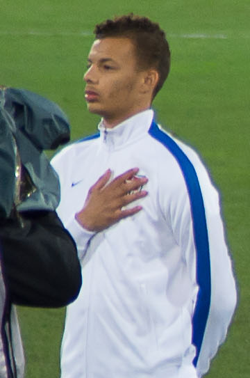 USA-Columbia, FIFA U20 World Cup